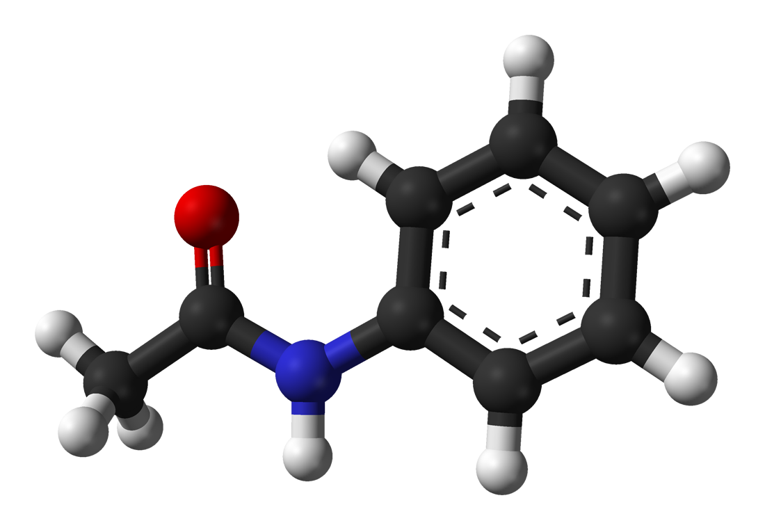 Ball-and-stick model of the acetanilide molecule